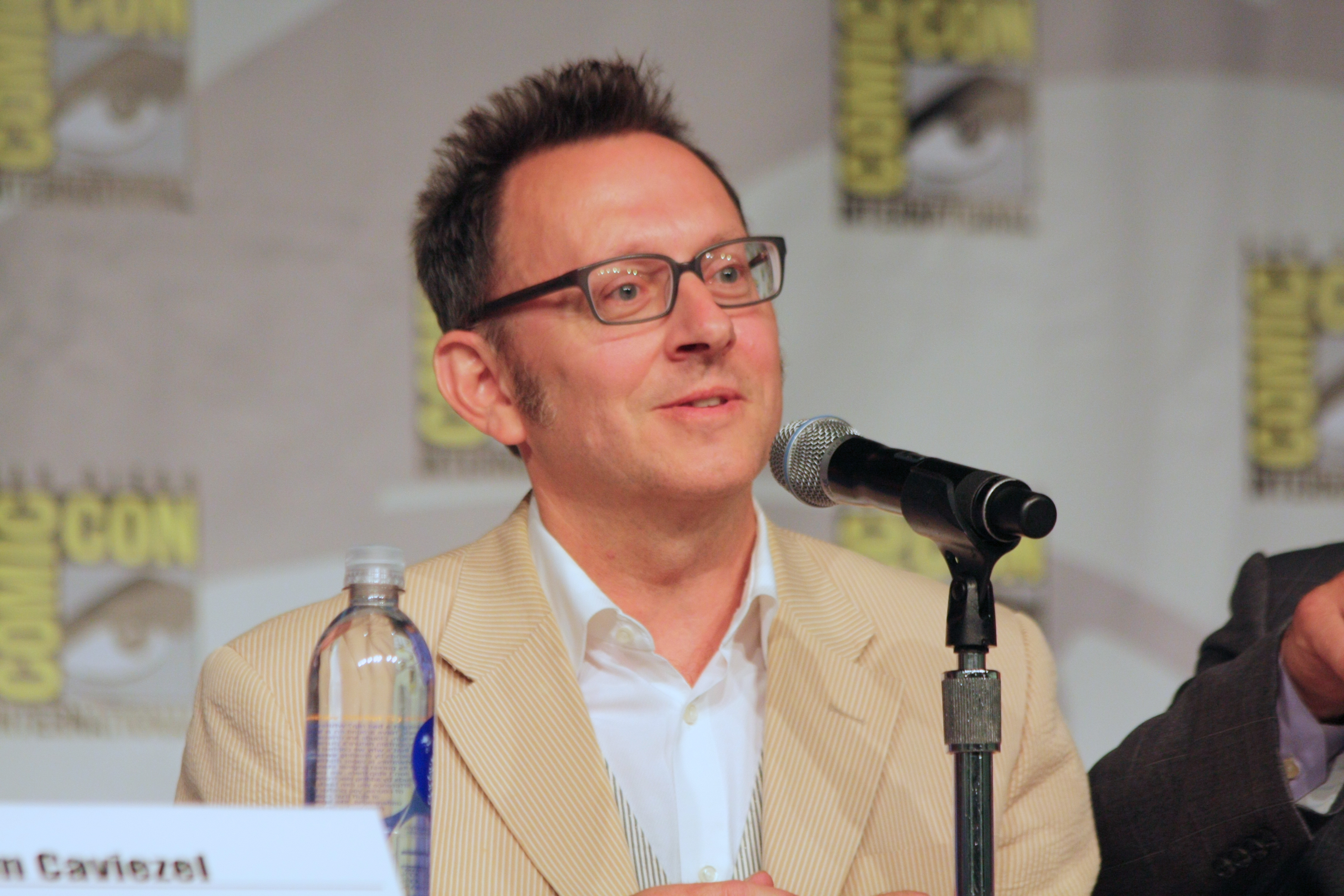 Michael Emerson (Harold) Person of Interest Panel at the 2014 San Diego Comic Con